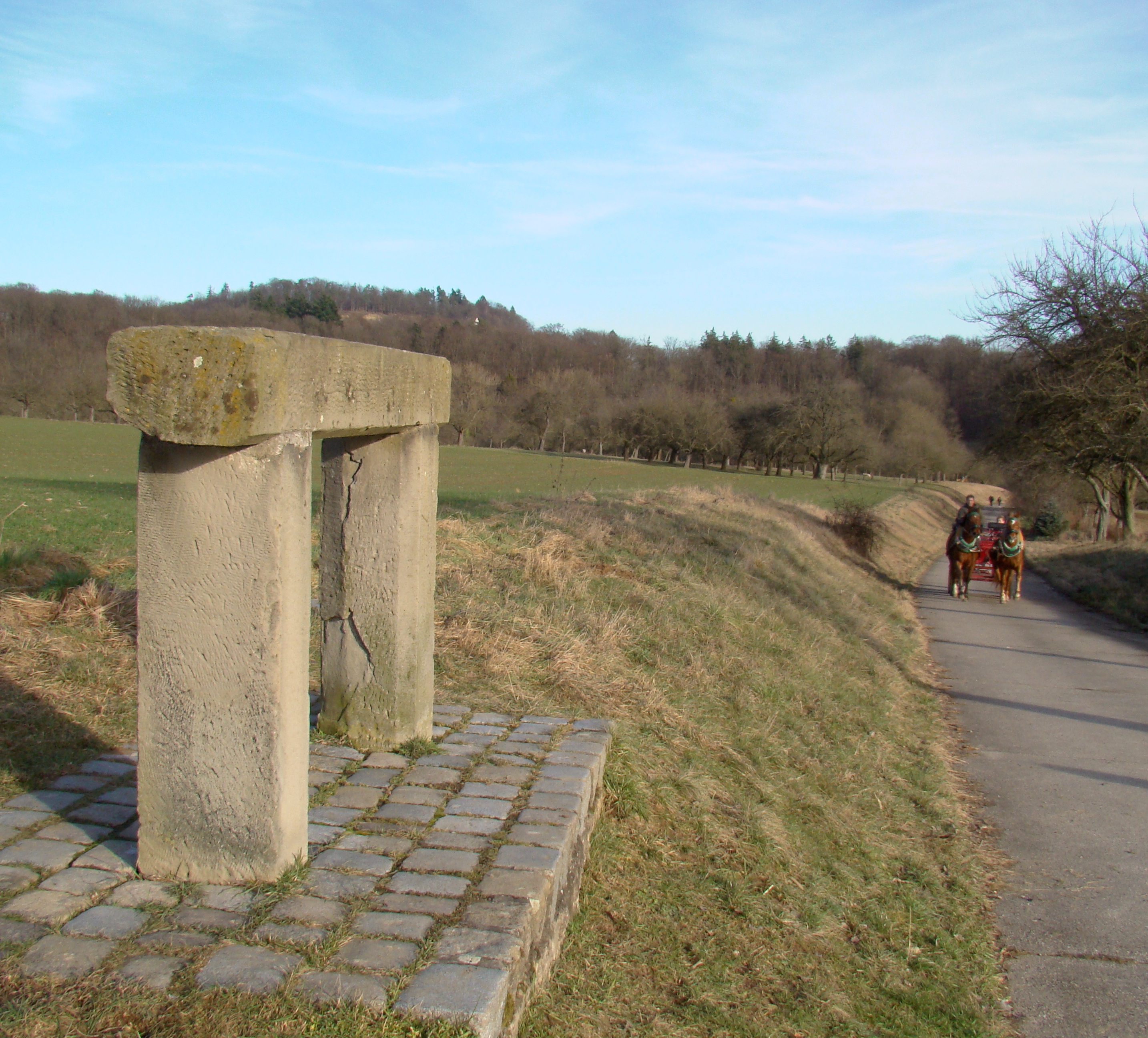 Stone rest bench at the Grasiger Weg (Grassy path) east of Ludwigsburg-Poppenweiler